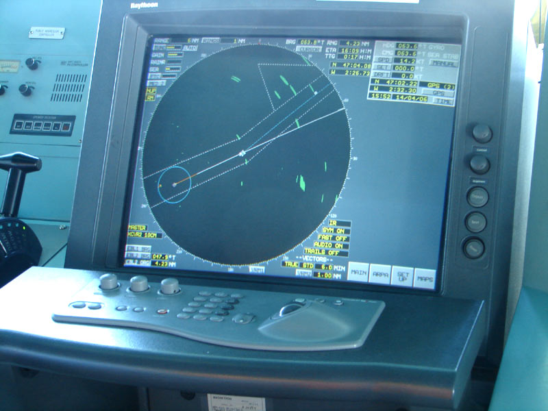 Navigation system used on an oil tanker: radar screen.